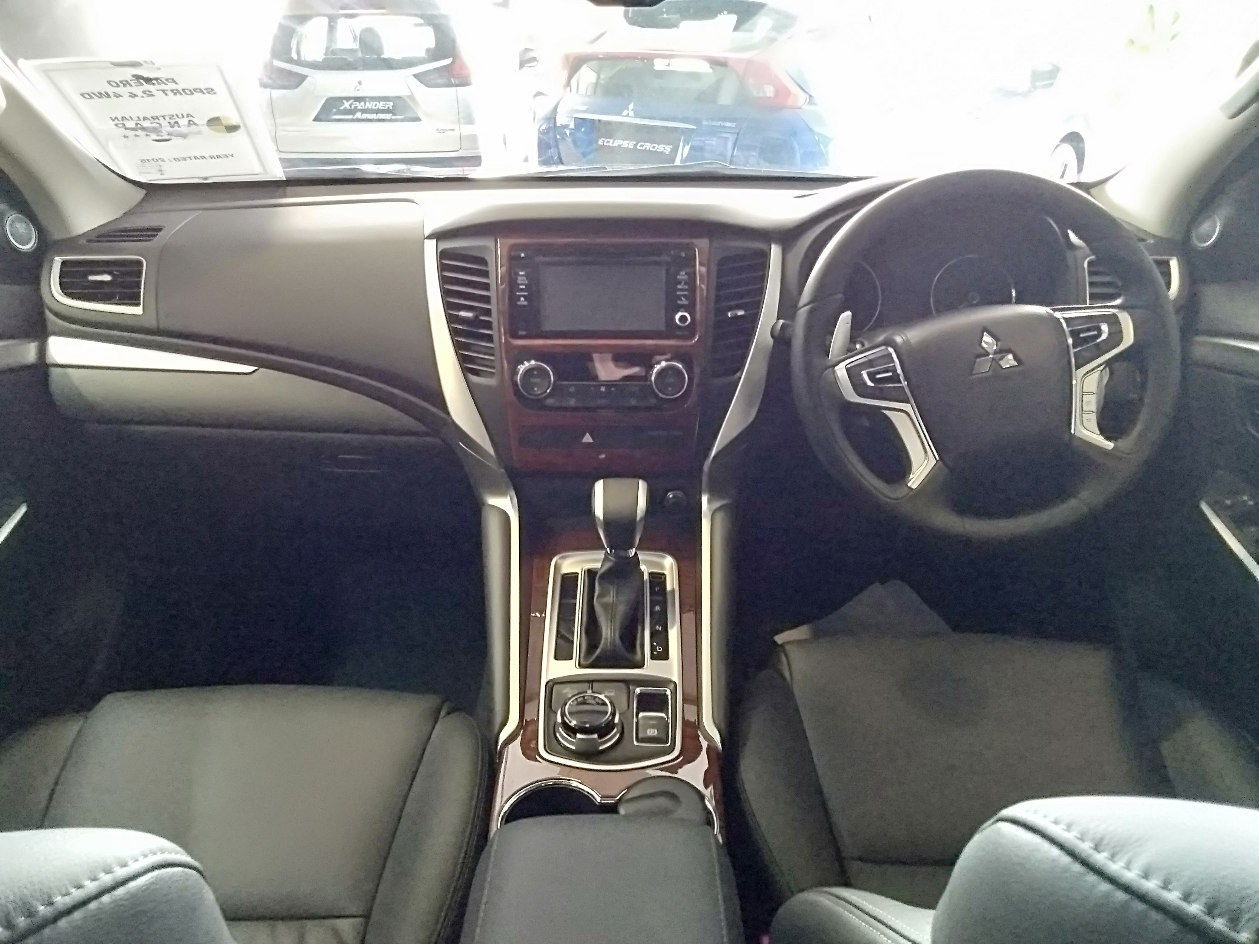 2021 Mitsubishi Pajero Sport 4X4 interior view finished in Black paint. Photographed at GHK Motors Mitsubishi and Perodua showroom, Beribi, Brunei.